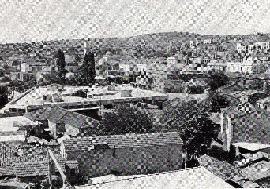 Serres, old photo This media file is produced by Wikipedian in Residence in Category:Wikipedian in Residence at DARM in 2016.